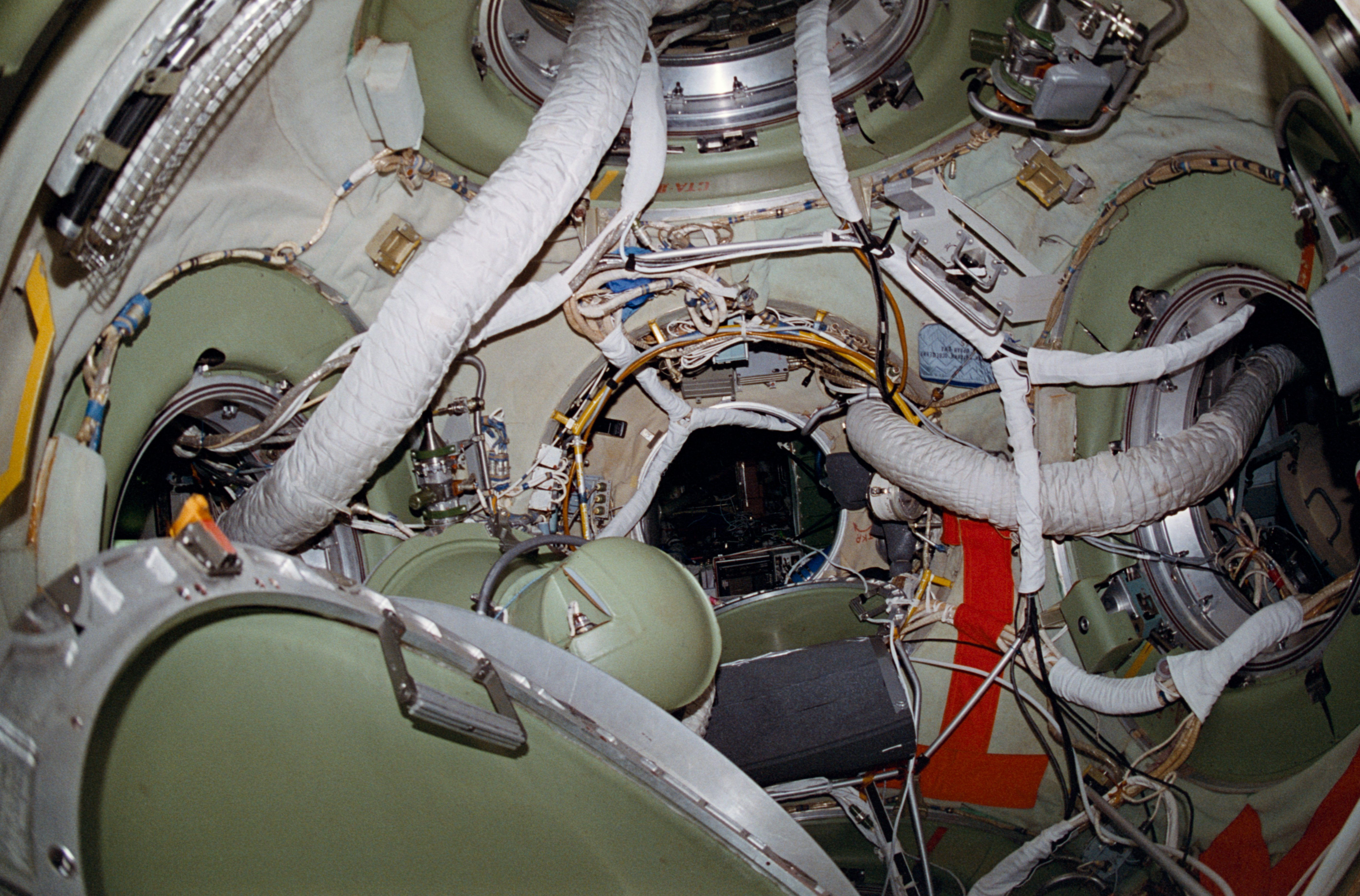 A view of the interior of the docking node of the Russian space station Mir's core module, showing the hatches leading to the station's various modules and the cables and hoses trailing through them.